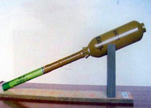 tb-1 armenian rocket